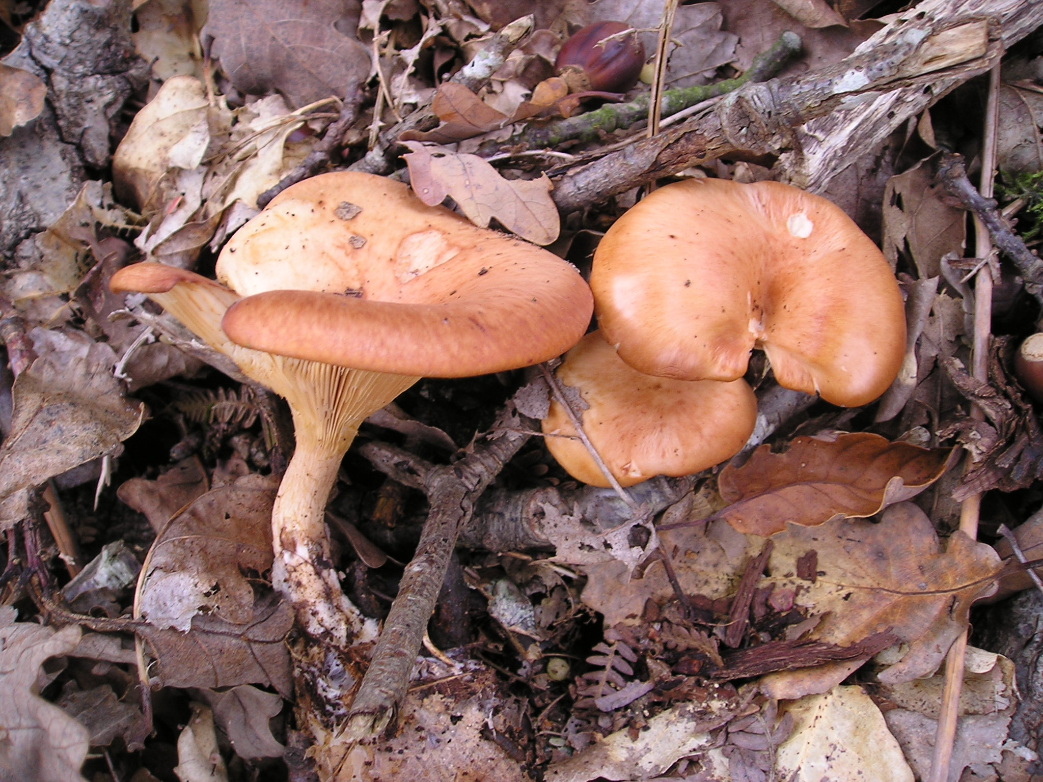 Lepista flaccida (= Clitocybe flaccida) in a French wood near Rambouillet.